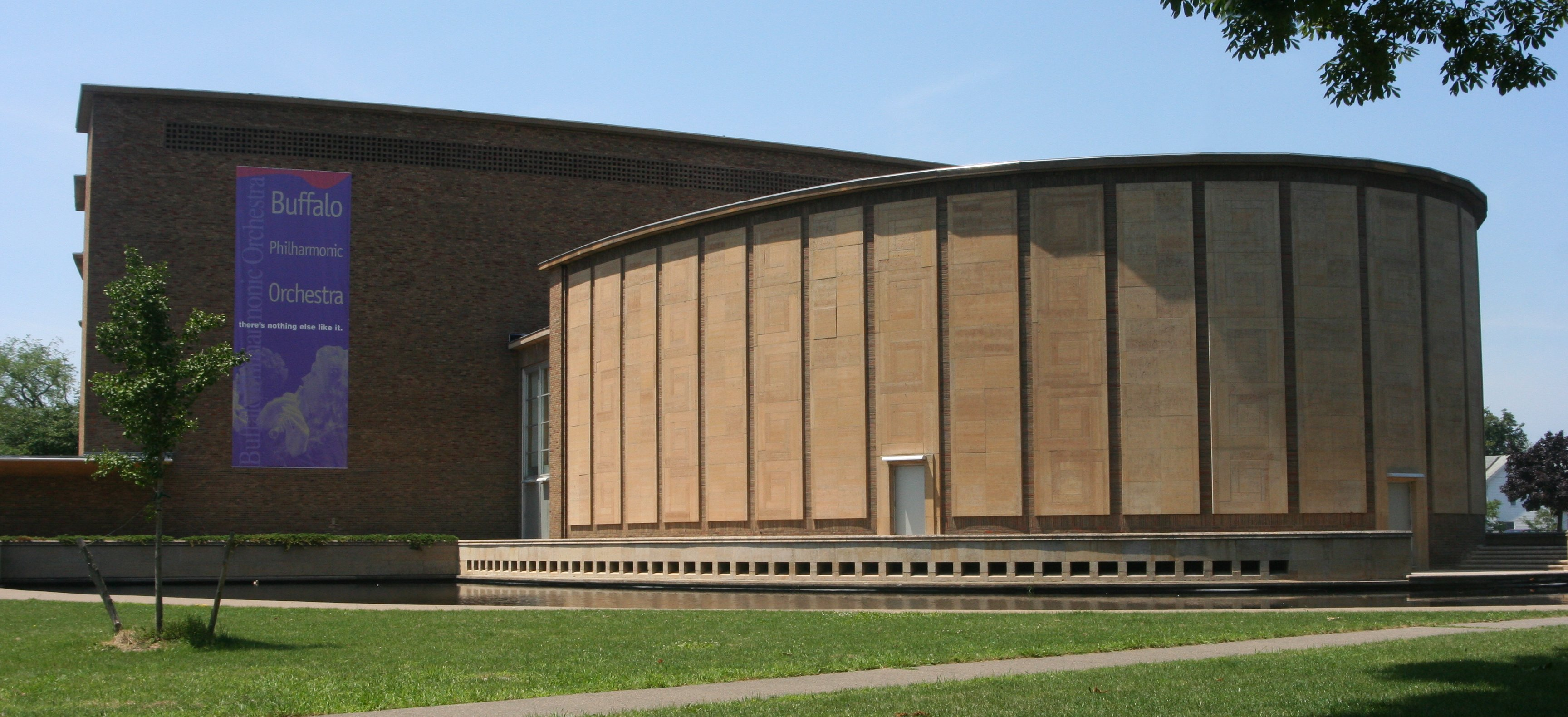 Kleinhans Music Hall, home of the Buffalo Philharmonic Orchestra, was founded by Edward Kleinhans and endowed in the name of his wife, Mary Seaton Kleinhans, and his mother, Mary Livingston Kleinhans. The building was designed by Eero Saarinen with his father, Eliel Saarinen, in the International Style.